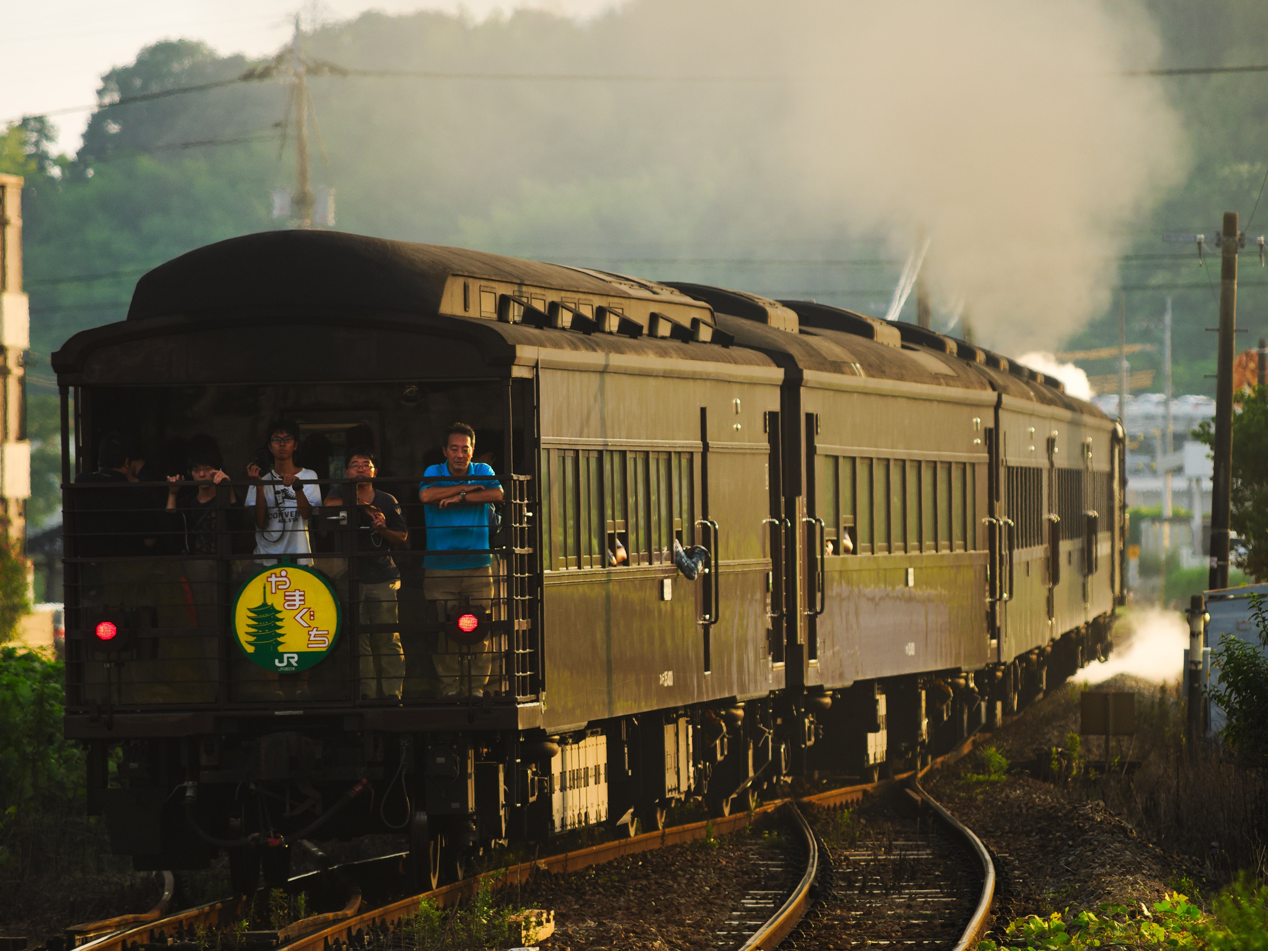 JR West 35 series coaches on an SL Yamaguchi service